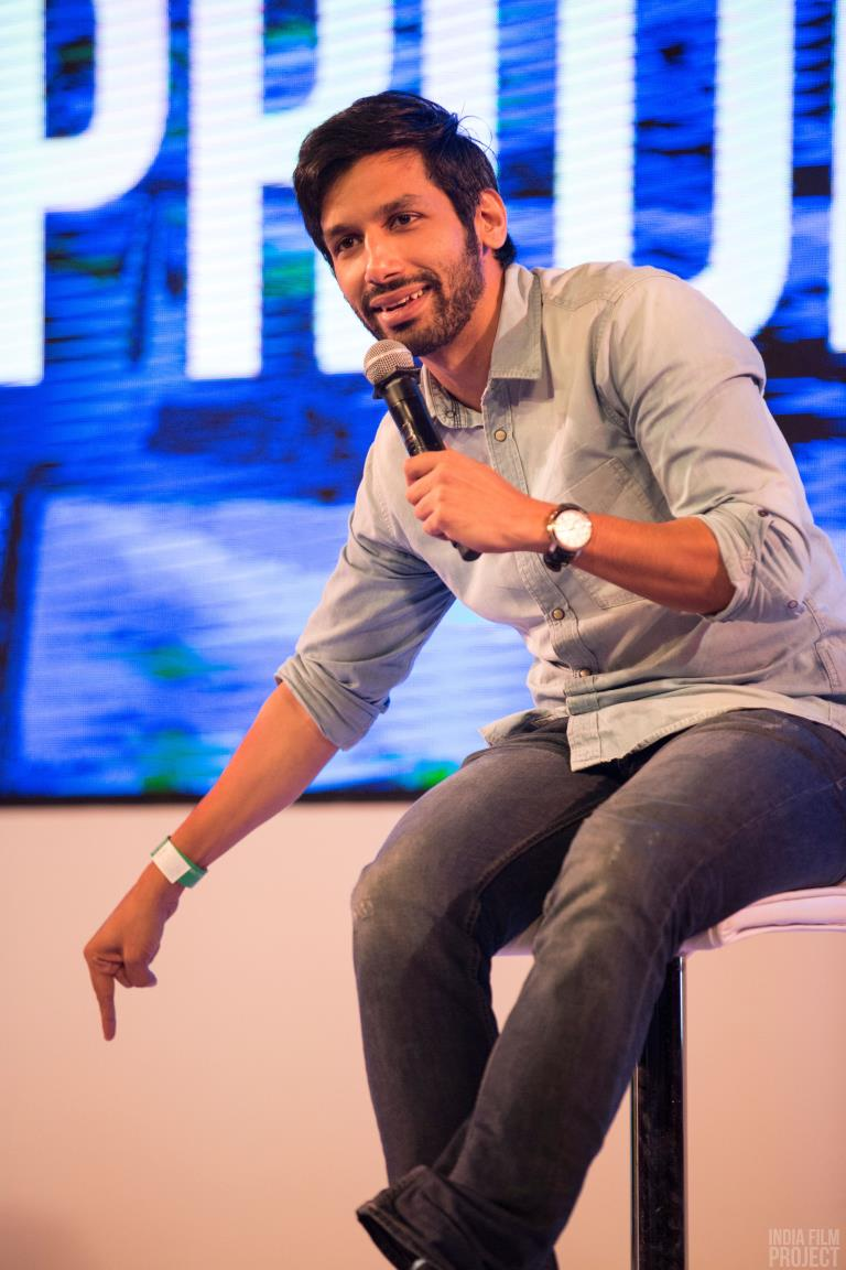 Audience went into splits as Kanan talked about how not to make a film